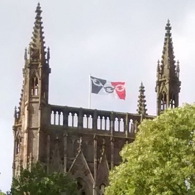 A view of Worcester Cathedral flying the Black Country Flag. Dudley and some other parts of the Black Country are in the Diocese of Worcester. The Bishop of Dudley, the Rt Revd Graham Usher, said in 2015: “The communities of the Black Country are rightly proud of their rich heritage and this spirit is summed up in the design of the Black Country flag. That's why I'm delighted that on Black Country Day our flag will be flying from the tower of Worcester Cathedral" (Setchell, Sam; (8 July 2015) Flying the flag for Black Country Day; Diocese of Worcester, Church of England).